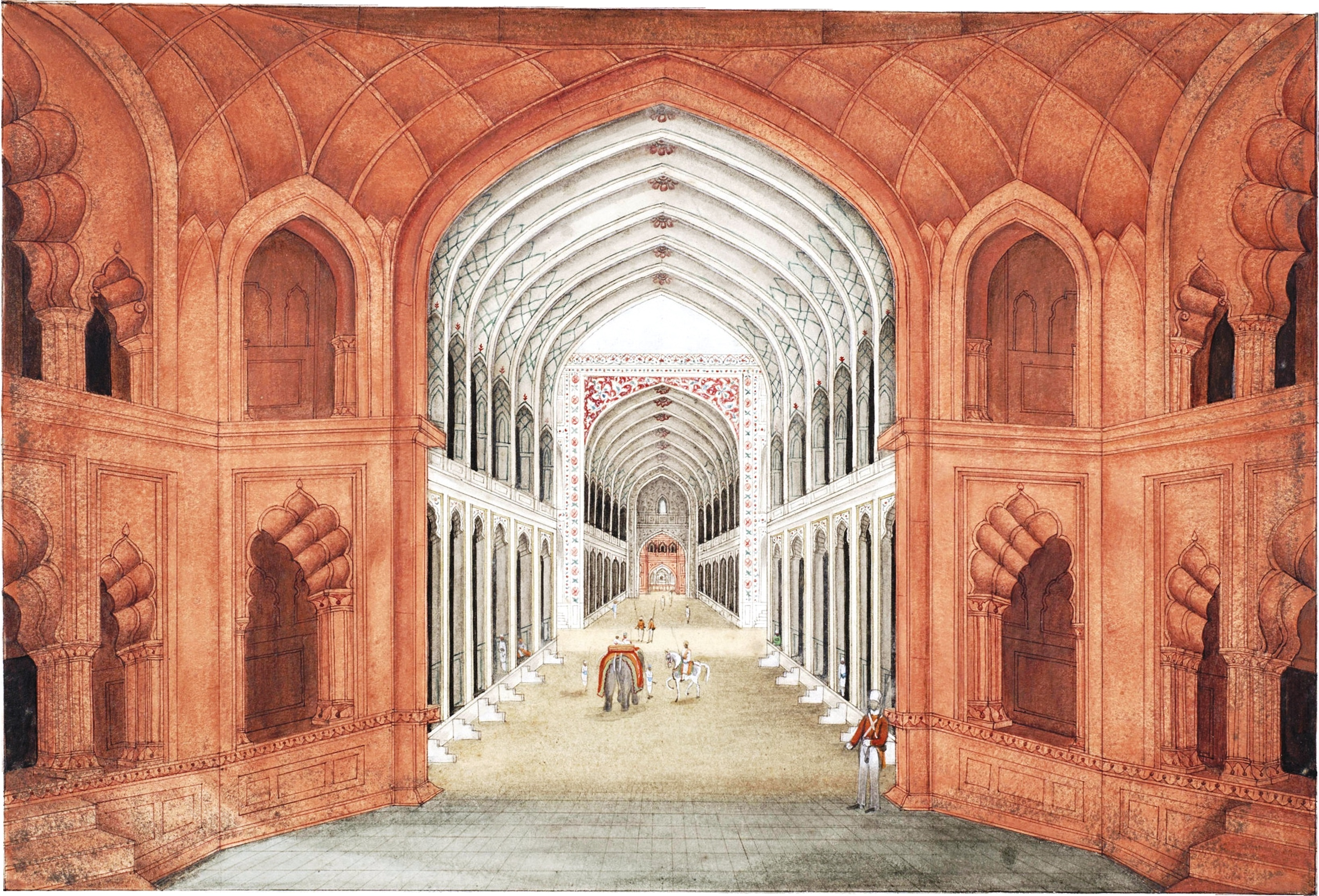 The Chhutta within the Lahore Gate of the Palace in Delhi. A series of 31 paintings by Ghulam Ali Khan (fl. 1817-55), consisting of views of monuments in and around Delhi, and including four portraits of the last Mughal Emperor Bahadur Shah II (reg. 1837-58) and his sons. Watercolour and gold on paper, black margin rules, three title pages, three sheets of portraits, all with identifying inscriptions in English and in Persian in nasta'liq script in black ink, the portraits with further inscriptions in nasta'liq script with the date November 1852 (Christian date written in Arabic), in later mounts, loose in contemporary green leather-covered despatch box, the lid embossed in gold DELHEE 1854. Size paintings 290 x 215 mm. and slightly smaller; mounts 318 x 394 mm.; box 435 x 365 x 110 mm.